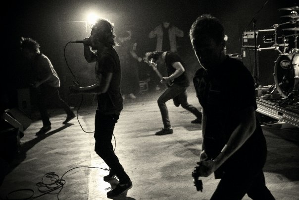 Architects performing live in Australia in 2009. Left to right: guitarist Tom Searle, vocalist Sam Carter, bassist Alex Dean and guitarist Tim Hillier-Brook. Drummer Dan Searle is not visible in the image.